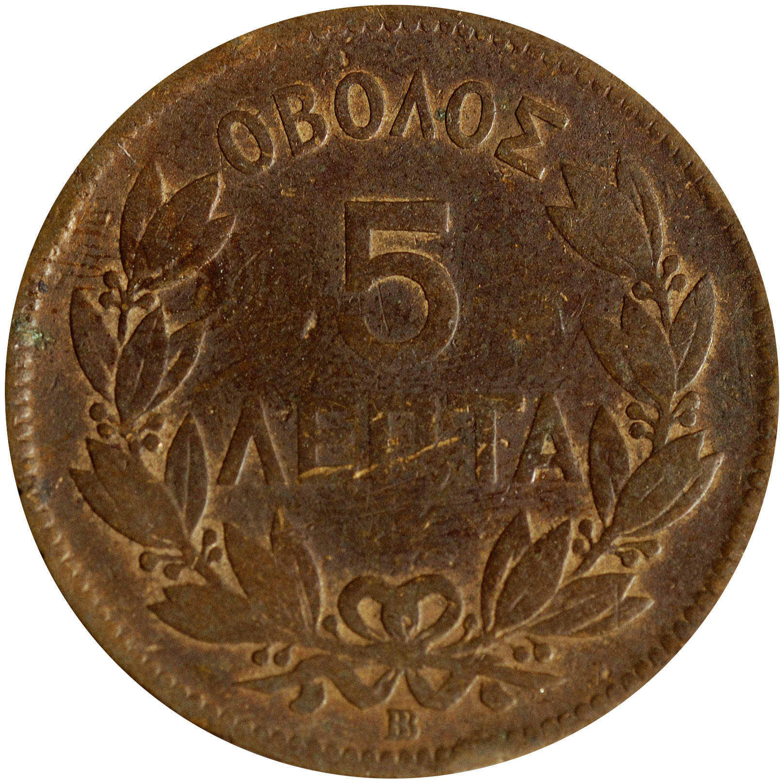 5 Greek leptons (1869)